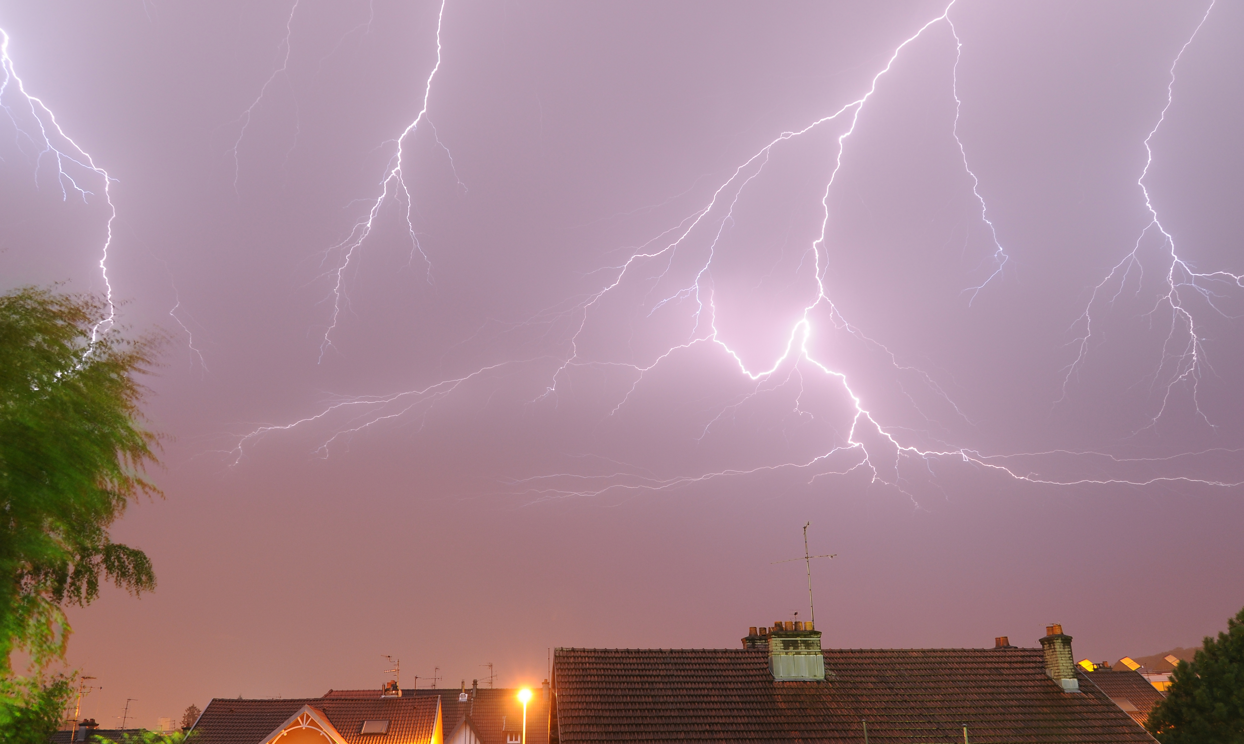 This photograph was taken with a Nikon D300. Foudre à Belfort.